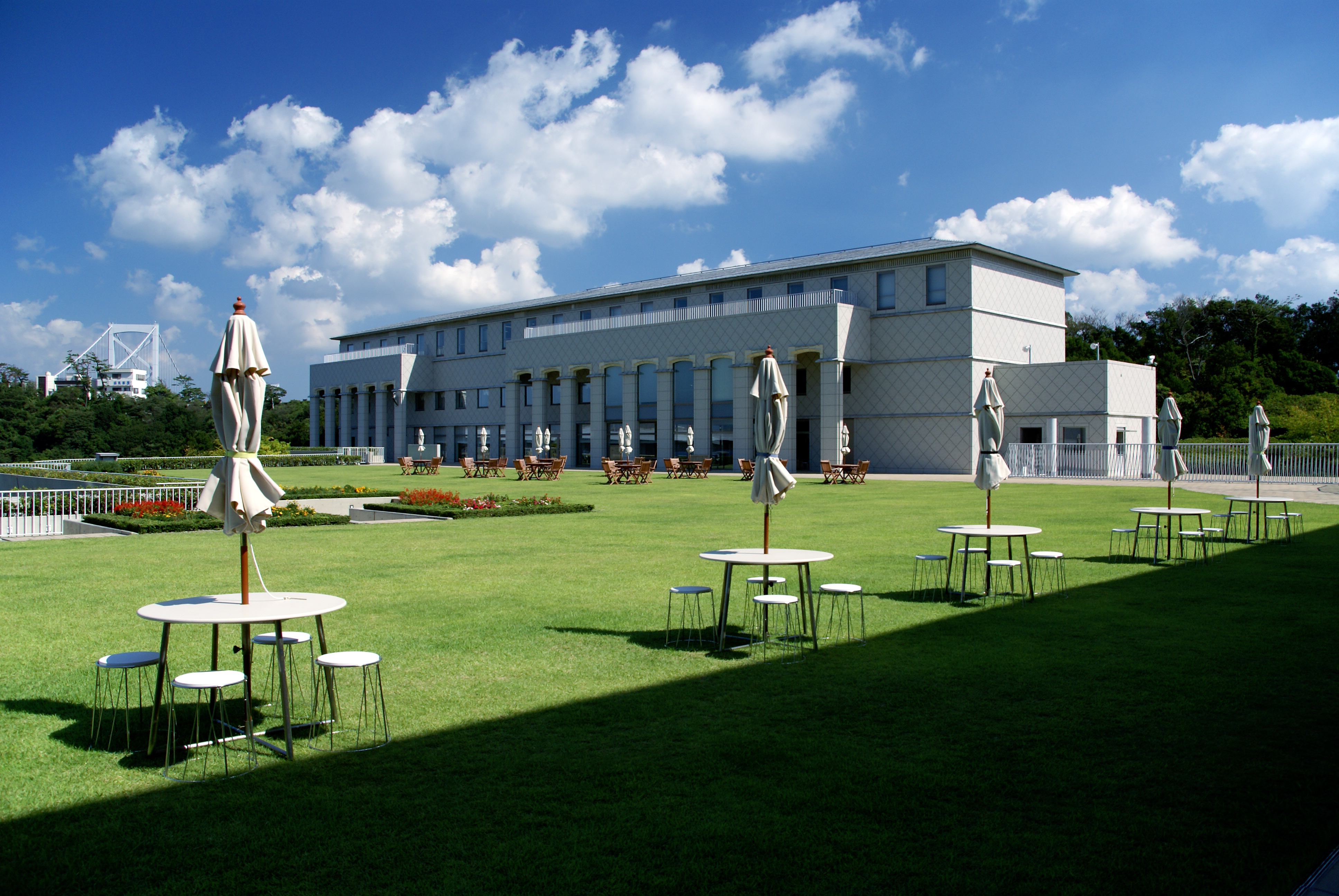 Ōtsuka Museum of Art in Naruto, Tokushima prefecture, Japan.